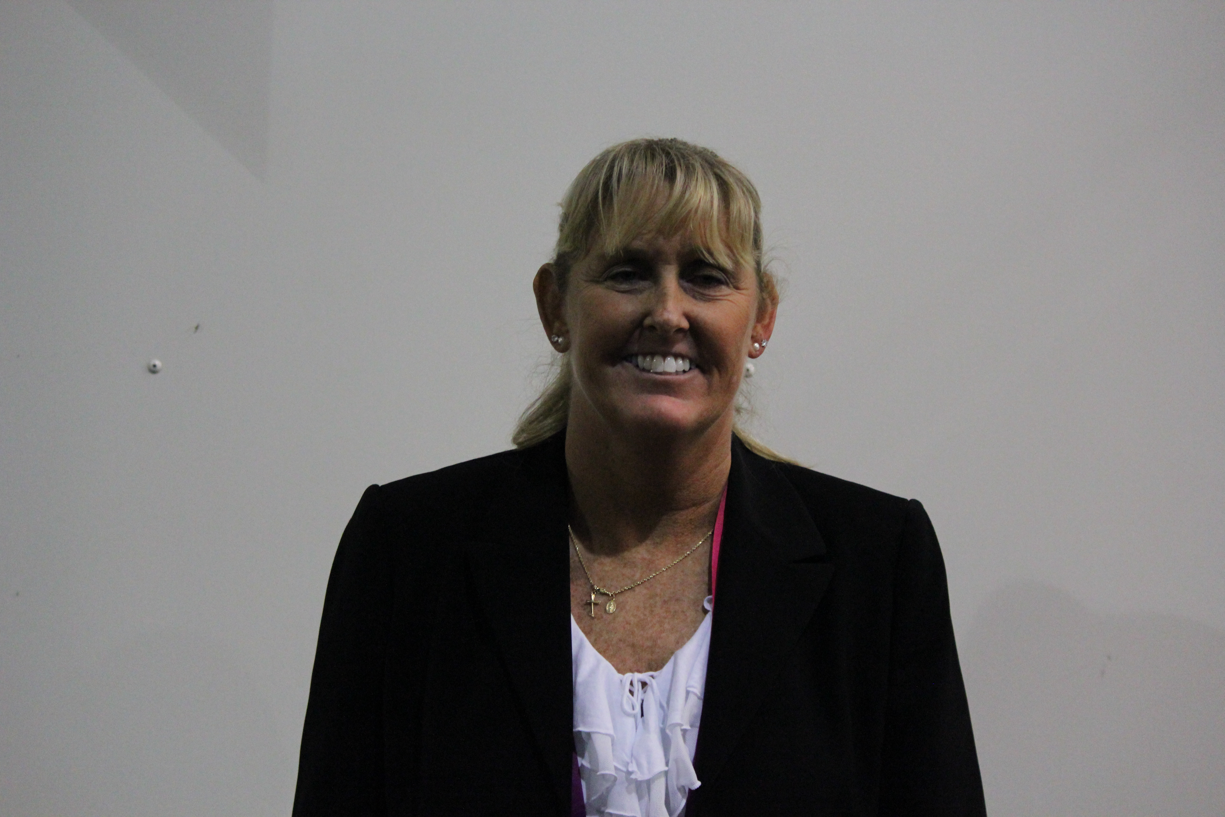 Trischa Zorn, USA Paralympian on 31 August 2012.